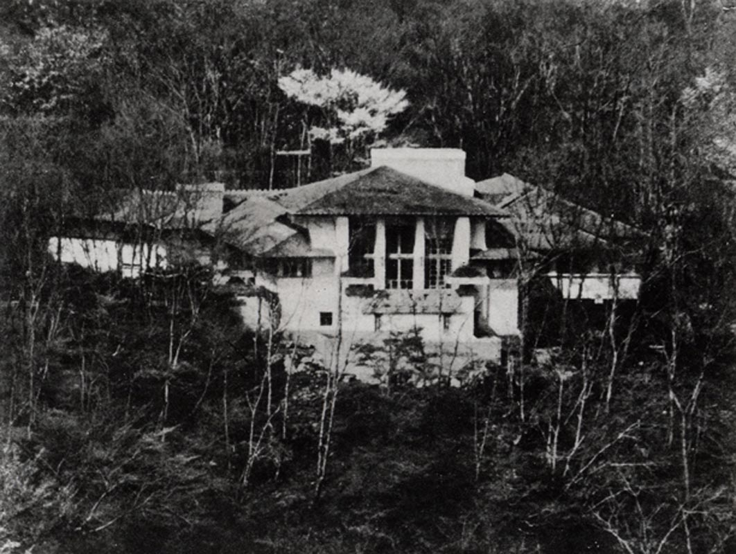 Whole view of Arinobu Fukuhara's villa, 1921, Frank Lioyd Wright, architect